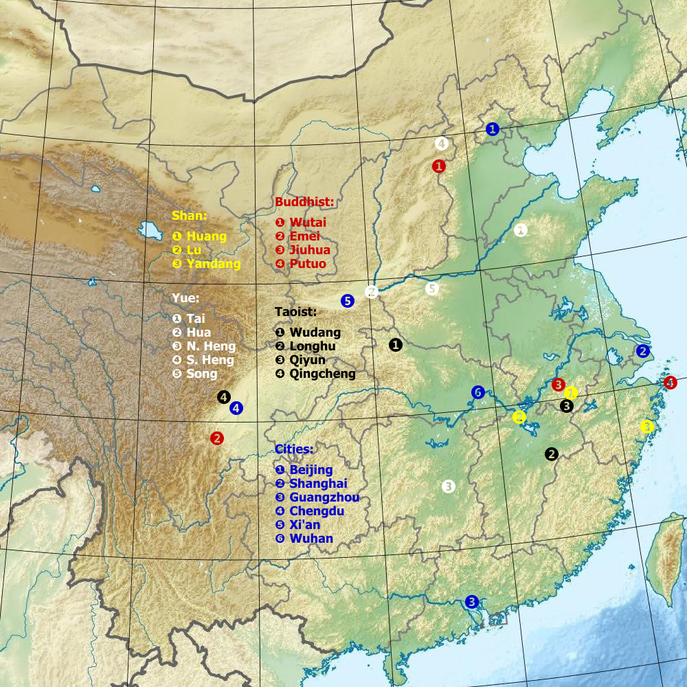 Map of the great mountains of China, including the 3 Shan, 5 Yue, 4 Buddhist and 4 Taoist mountains (English version rendered from SVG)